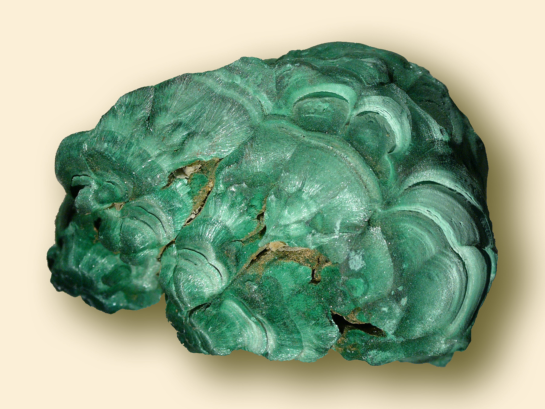 Malachite